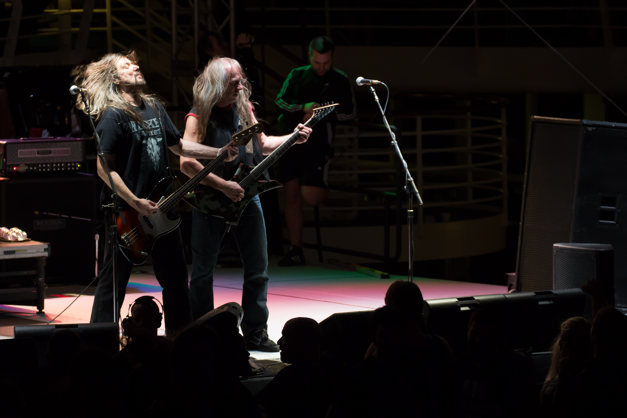 Sodom playing on the "Barge to Hell" metal cruis in 2012